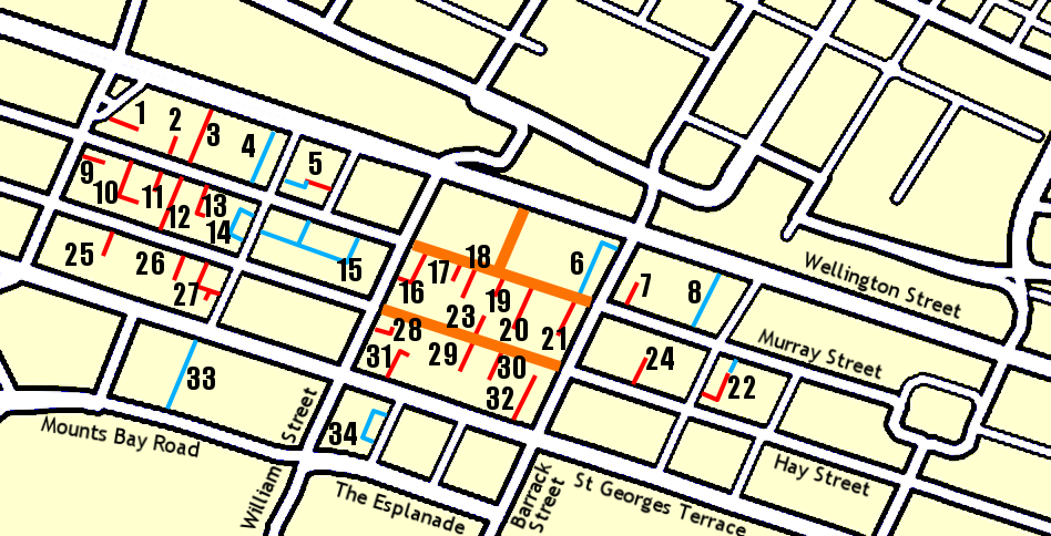 Locations of laneways in the CBD of Perth, Western Australia. Laneways (or portions) coloured blue are owned by the City of Perth, whilst privately owned laneways (or portions) are coloured red. Key to numbers: Right of way (ROW): Little Milligan Street ROW 410 Murray Street Shafto Lane North Prince Lane ROW 64-68 King Street Grand Lane ROW 138 Murray Street McLean Lane ROW 46 Milligan Street ROW 419 Murray Street ROW 401 Murray Street Shafto Lane ROW 381 Murray Street Munster Lane Wolf Lane ROW 255 Murray Street Mall ROW 237 Murray Street Mall ROW 227 Murray Street Mall ROW 197 Murray Street Mall ROW 183 Murray Street Mall ROW 69 - 99 Barrack Street ROW 70 Pier Street ROW 670 Hay Street Mall ROW 564-570 Hay Street ROW 895 Hay Street ROW 847 Hay Street ROW 825 Hay Street ROW 56-60 William Street ROW 663 Hay Street Mall ROW 643 Hay Street Mall ROW 108 St Georges Terrace ROW St Georges Terrace Mercantile Lane Howard Lane